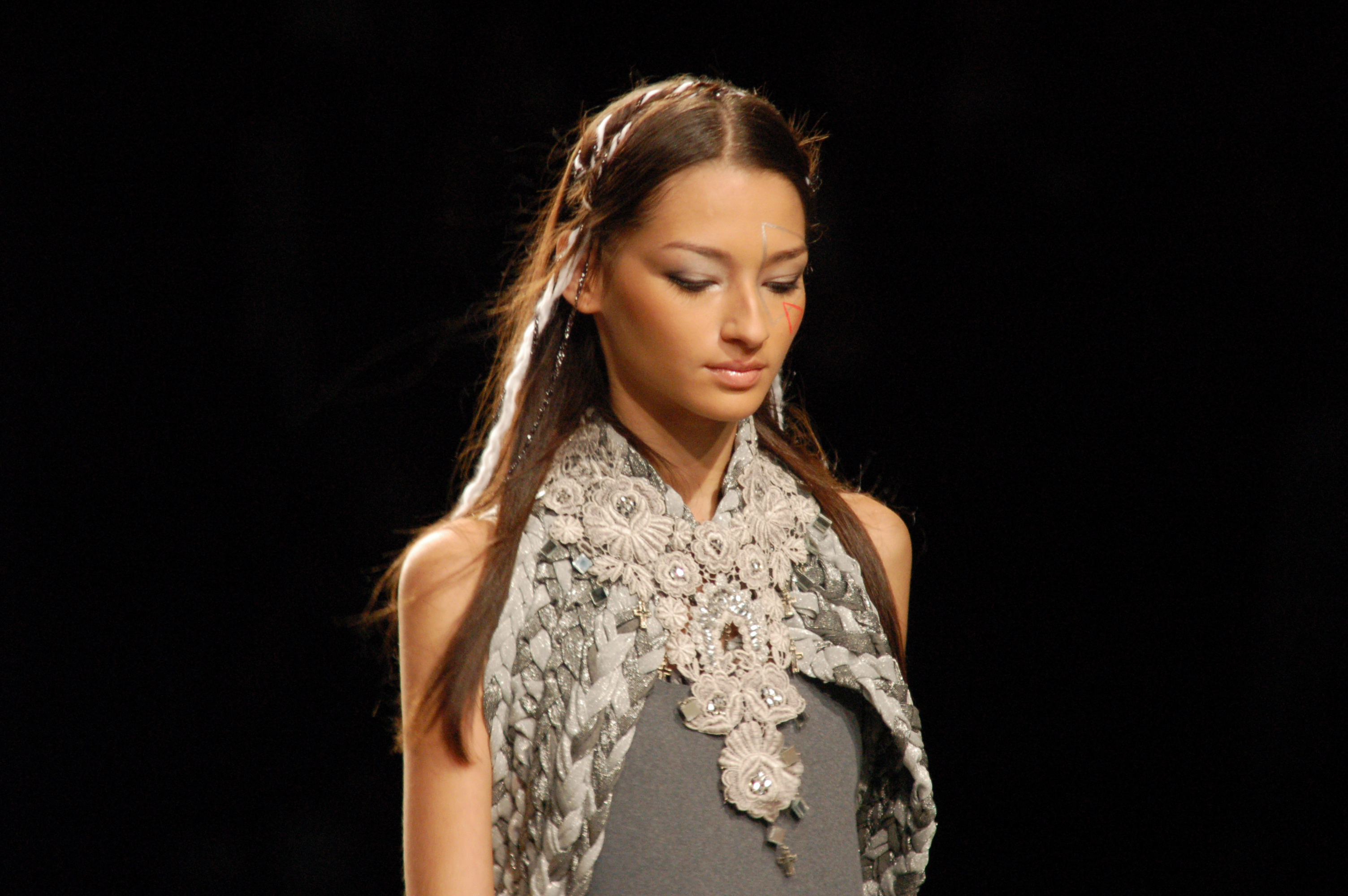 Bruna Tenorio at Sao Paulo Winter 2007 Fashion Week